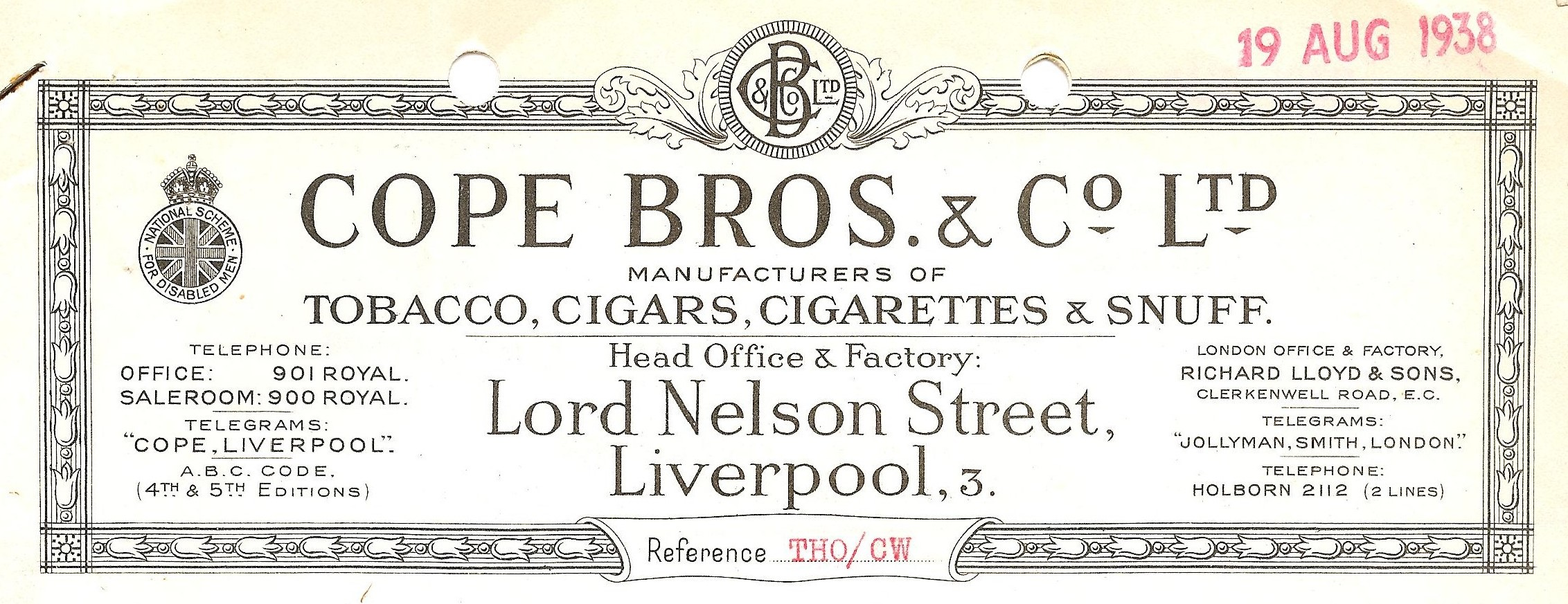 Cope Bros Limited 1848 -1952 Company Logo